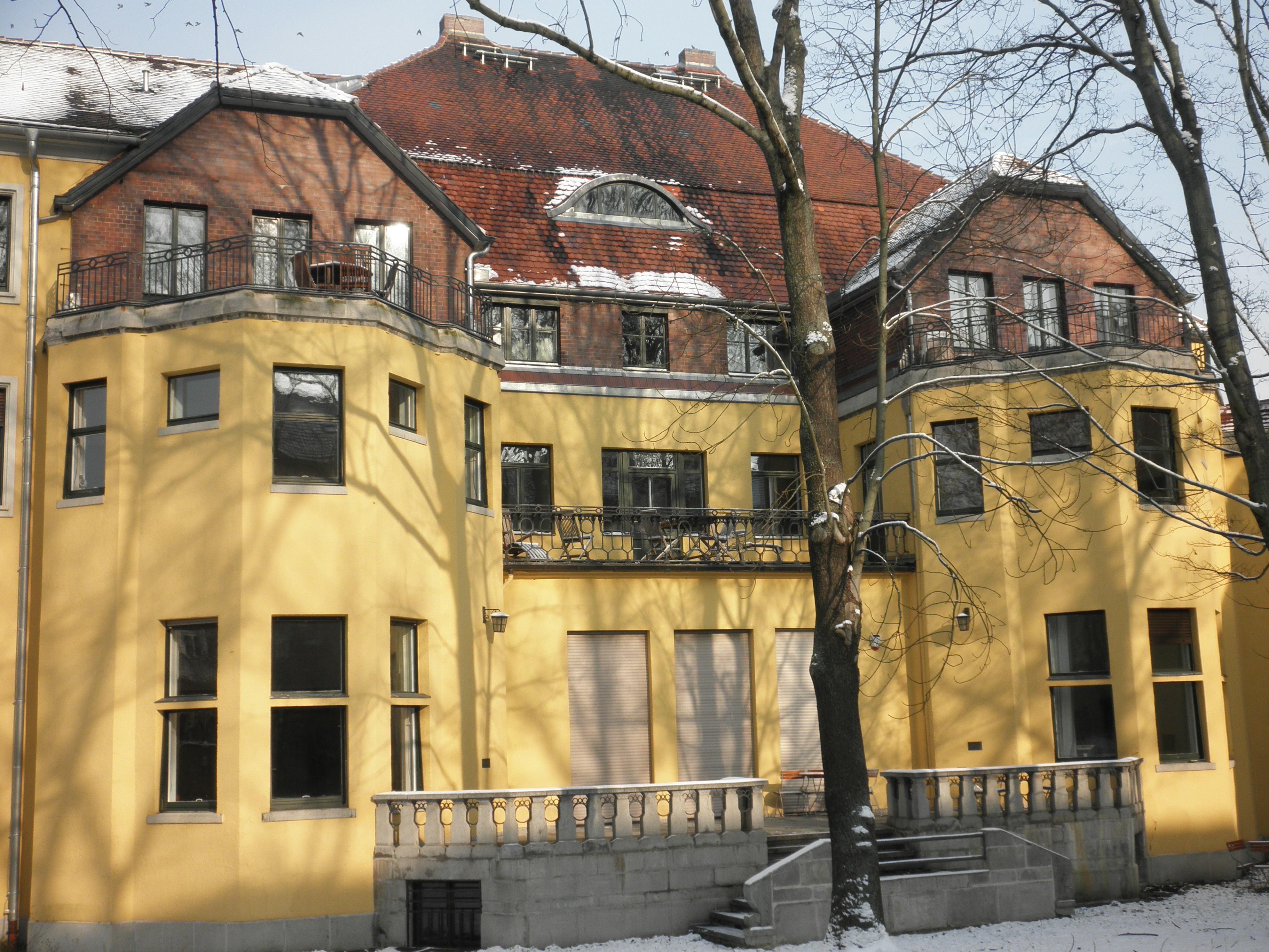 Villa Duerckheim in Weimar in Thuringia